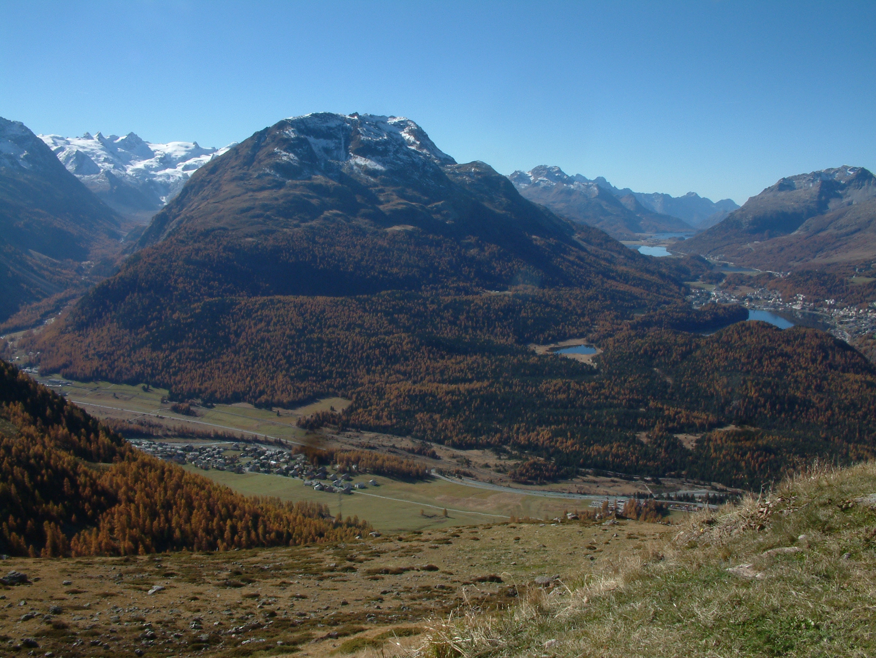 Switzerland „Muottas Muragel“ view to the Lakes and Mountains near St. Moritz, from near the station of the Cable Railway Muottas Muragel. Starting from left Val Roseg with the Rosegglacier (Vadret da Roseg), at the end of the valley Piz Glüschaint (3594m); in the middle of the image Piz Rosatsch (3123m) with Pontresina down in the valley and Lake Staz on the northern slope; to the right Lake St. Moritz, Lake Champfèr, Lake Silvaplana, Lake Sils ending in the northeast side of Maloja Pass. At the outmost right side Piz Lagrev (3165 m).